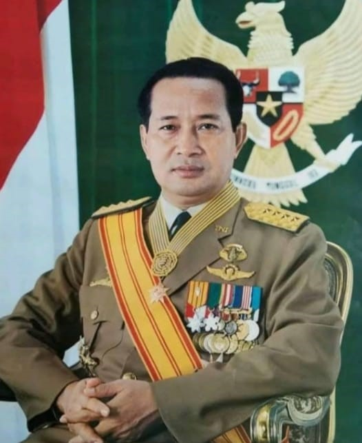 TNI Generalas President and concurrently ABRI Commander in Chief